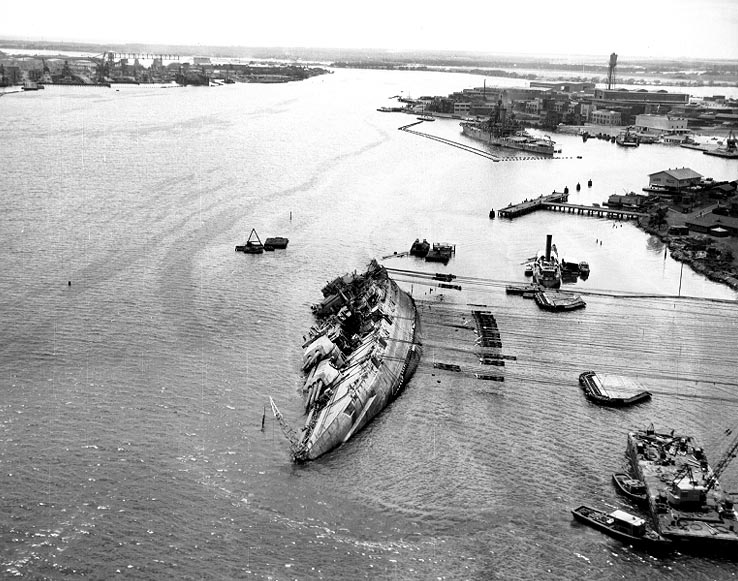 USS Oklahoma (BB-37) righted to about 30 degrees, while she was under salvage at Pearl Harbor. She had capsized and sunk after receiving massive torpedo damage during the 7 December 1941 Japanese air raid. Ford Island is at right and the Pearl Harbor Navy Yard is in the left distance.